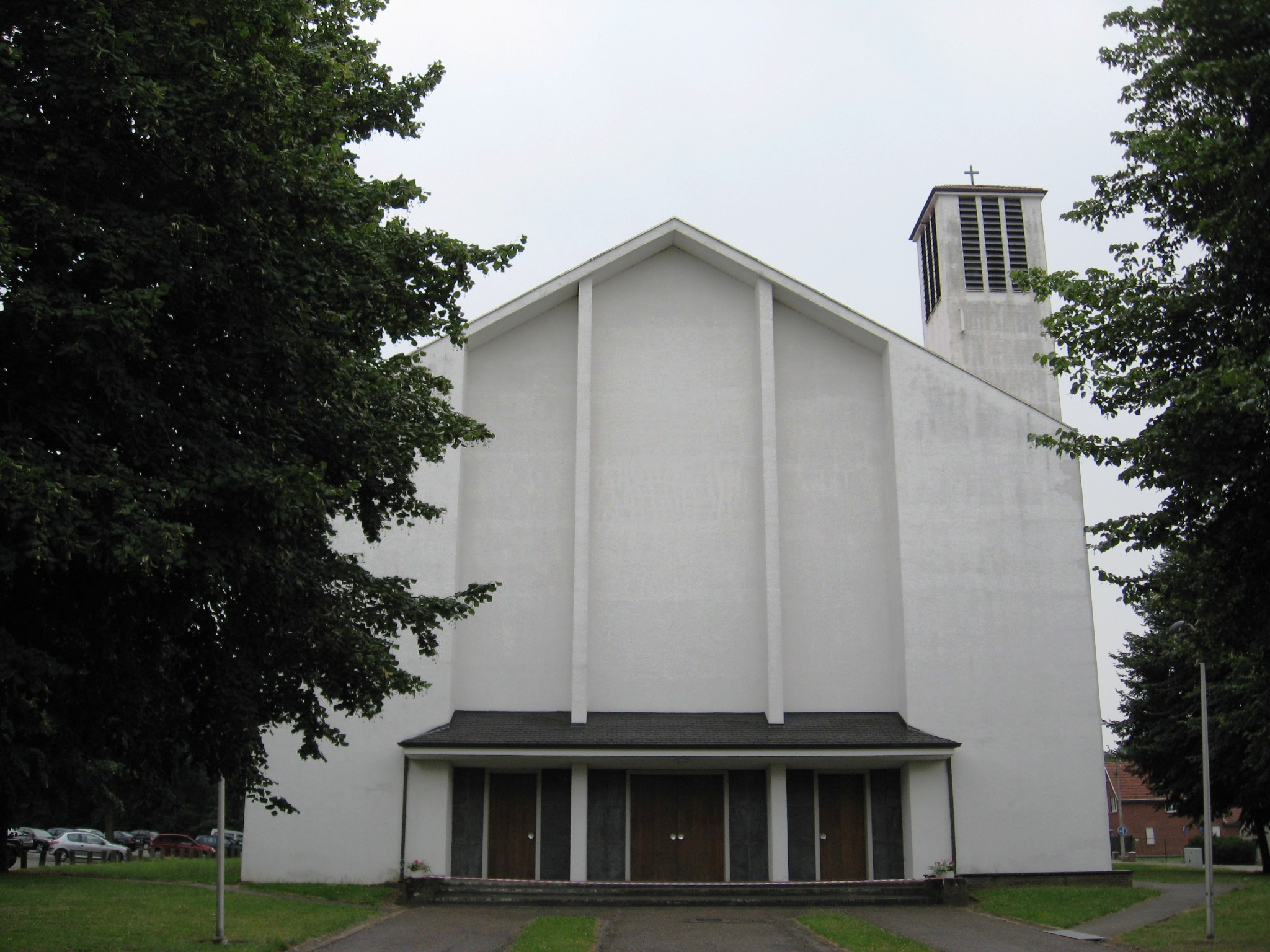 Church of the Sacred Heart in Zolder (Boekt), Heusden-Zolder, Limburg, Belgium